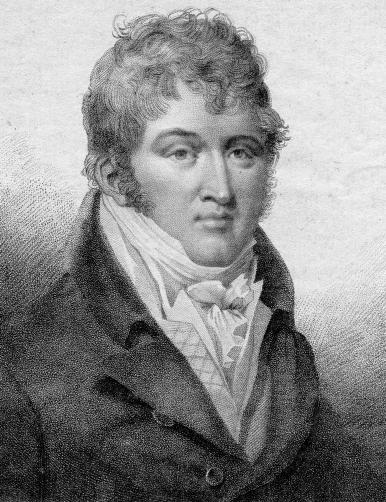 Picture of Richard Chenevix (1774 - 1830), who played a role in the discovery of palladium